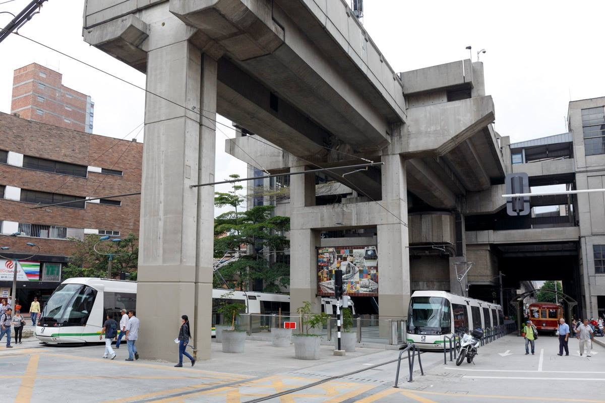 The San Antonio terminus of Medellín's Ayacucho Tram, a Translohr-type "rubber-tired tramway", located underneath the San Antonio metro station, with one Translohr car arriving, at right, and another departing, at left.